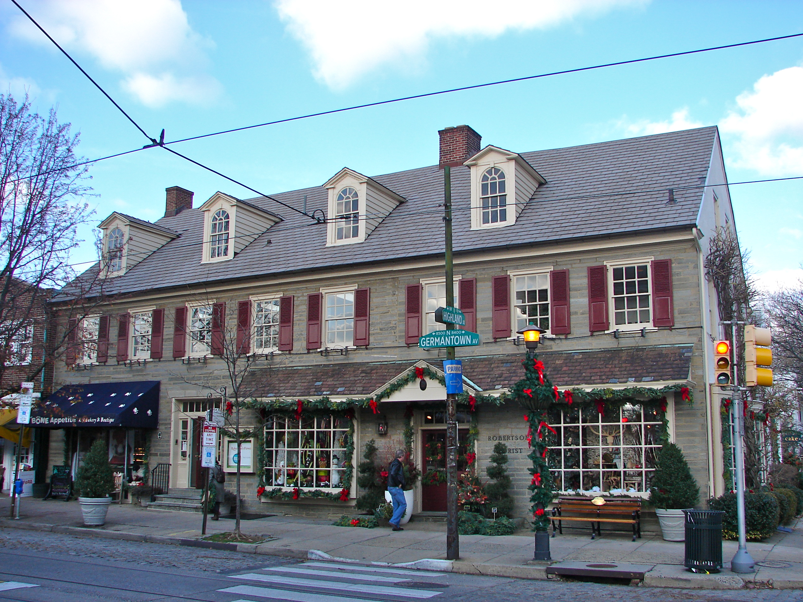 Old "Cress Hotel" 8501 Germantown Ave., Chestnut Hill, Philadelphia, Pennsylvania. Now a flower store. In the Chestnut Hill Historic District on the NRHP.